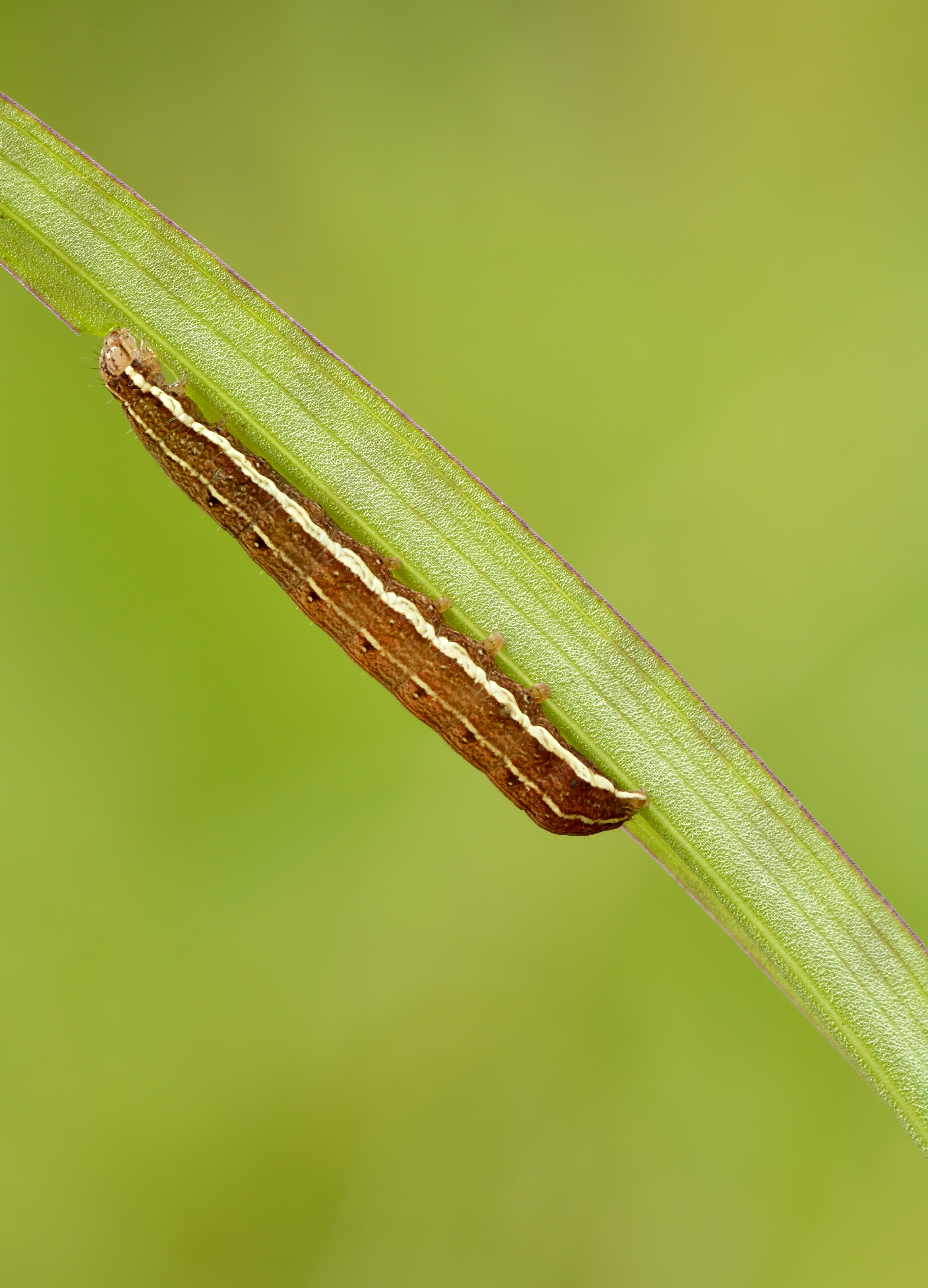 Golden-rod Brindle (Xylena solidaginis) caterpillar feeding on Dactylorhiza russowii. Niitvälja Bog, Northwestern Estonia.